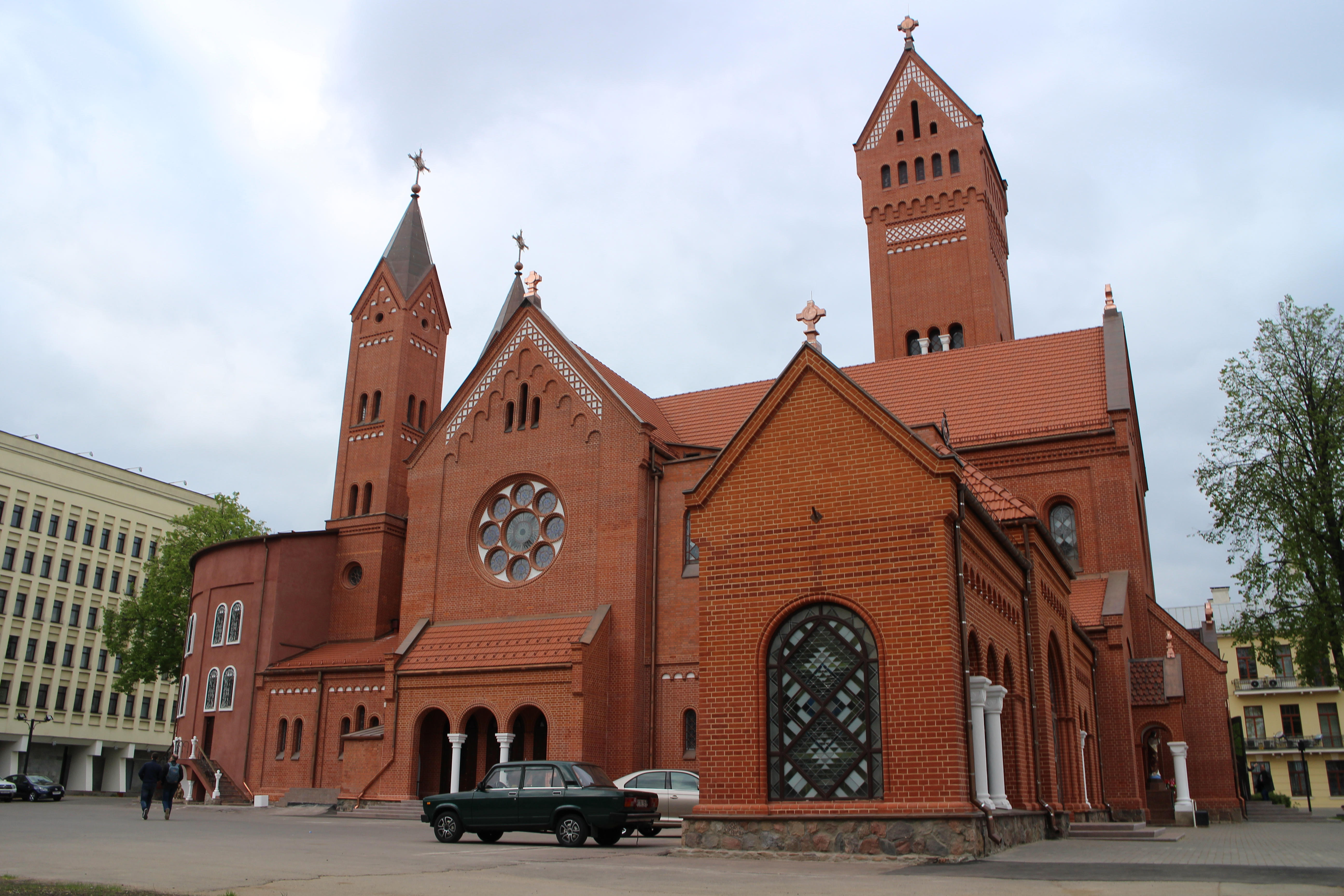 Church of Saints Simon and Helena, Minsk